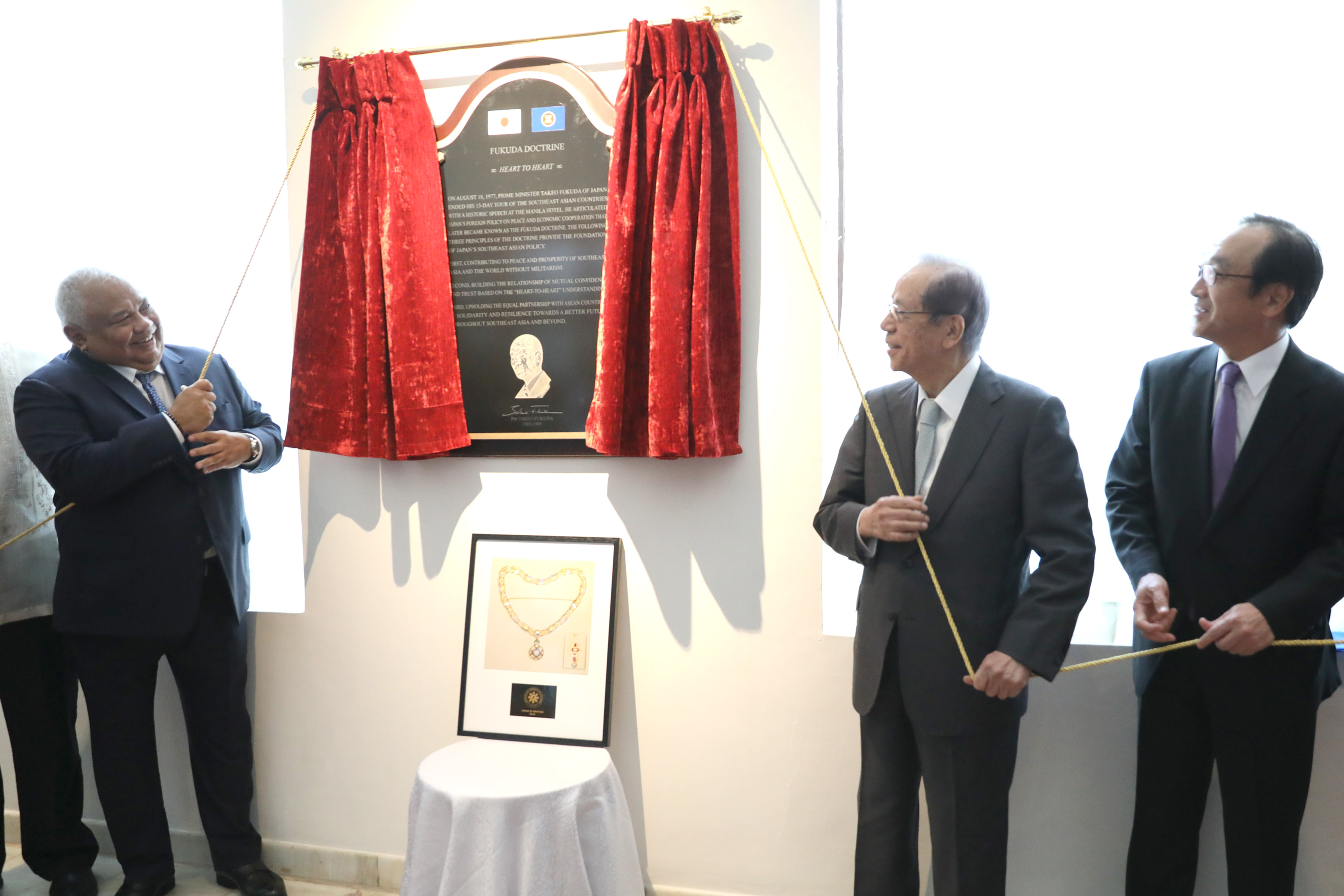 Executive Secretary Salvador Medialdea and former Prime Minister of Japan Yasuo Fukuda lead the unveiling of the commemorative marker during the Fukuda Doctrine Commemoration at the Manila Hotel on October 1, 2018.